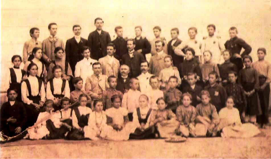 Stamen Panchev and students, 1910